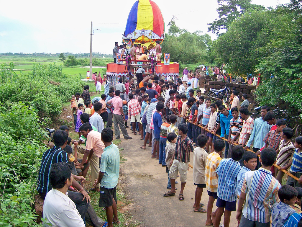 Car Festival (Rath Yatra) in Bhubaneswar